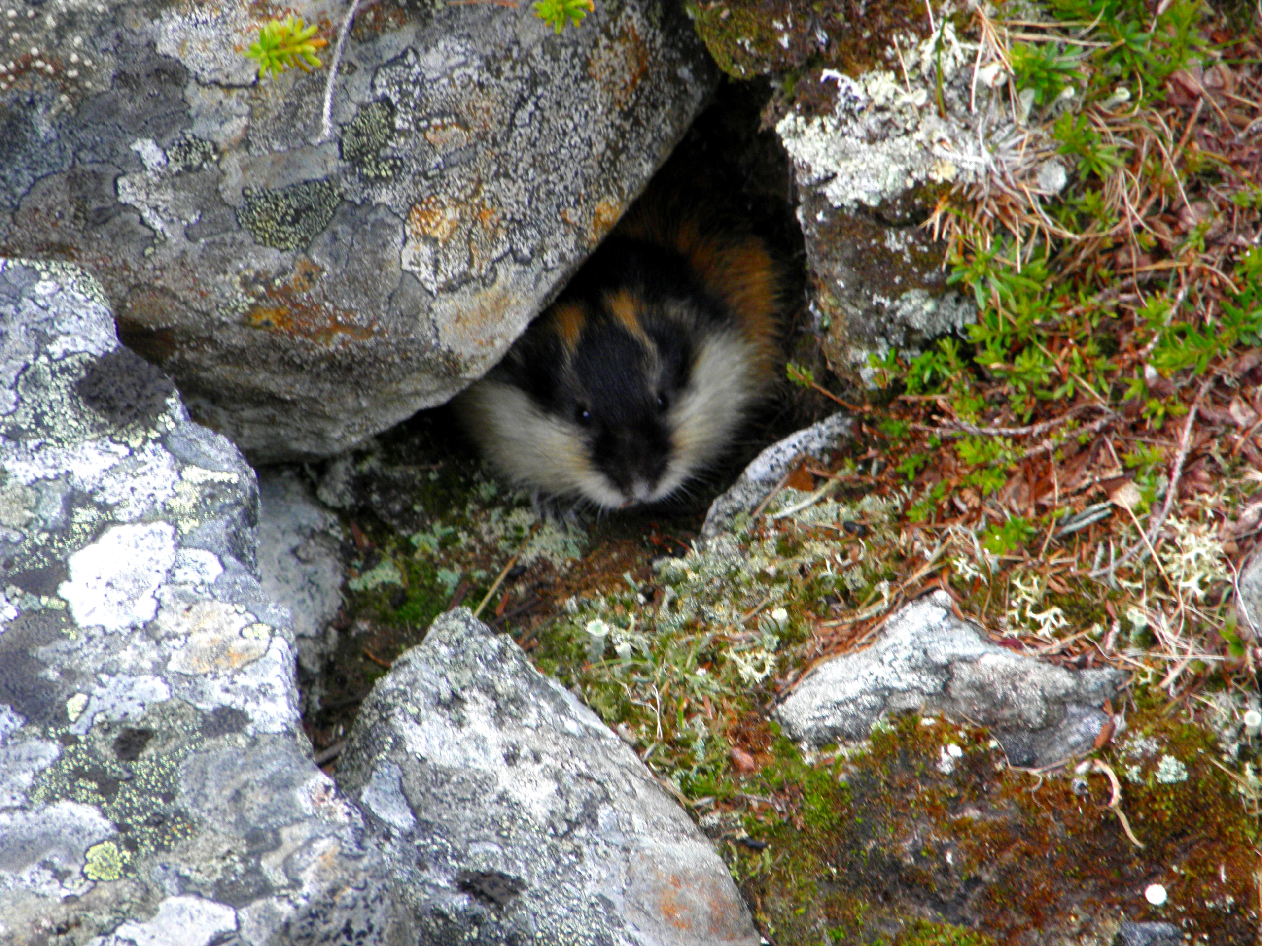 Norway lemming in Northern Sweden